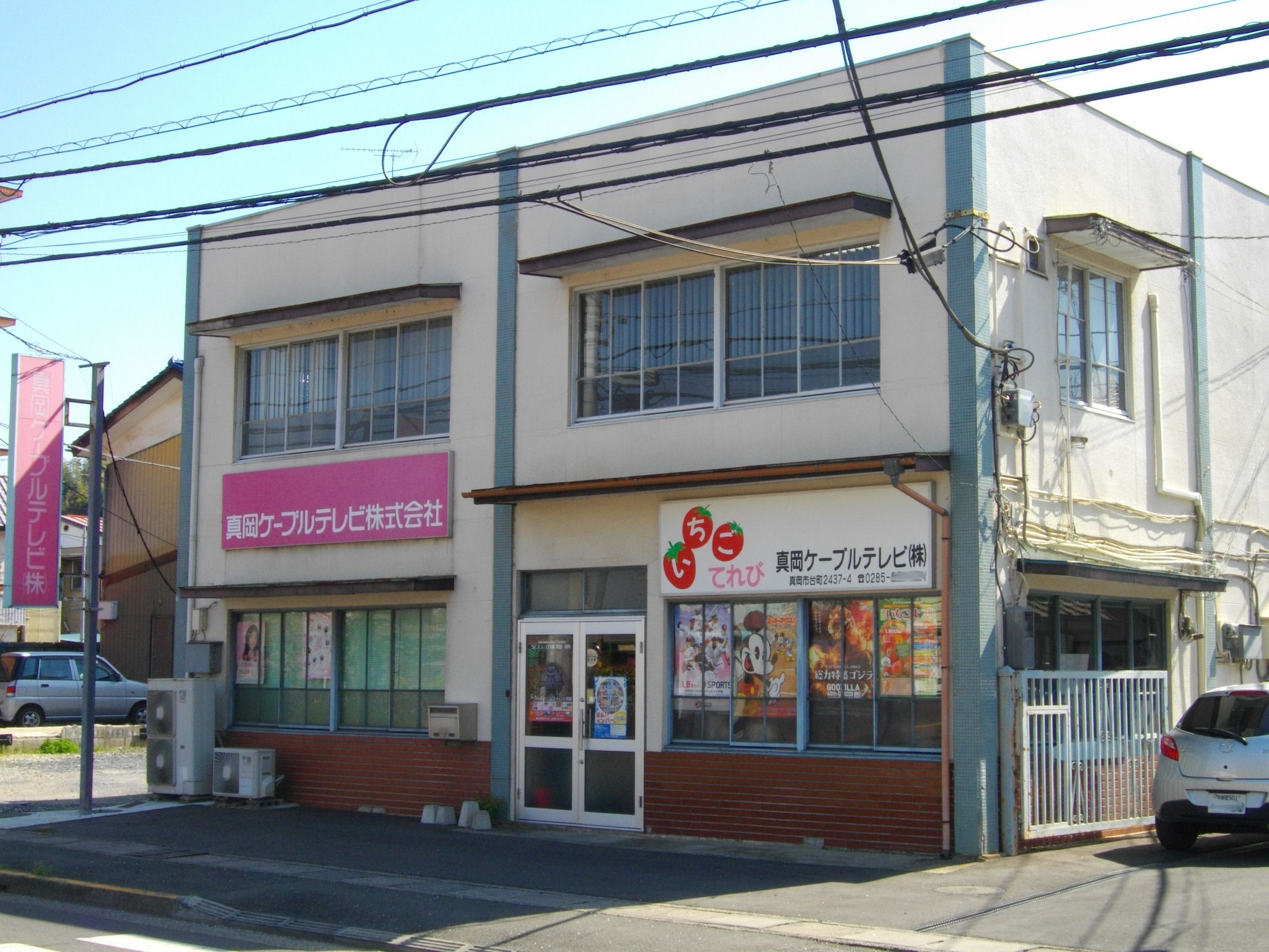 Moka Cable TV Head Office